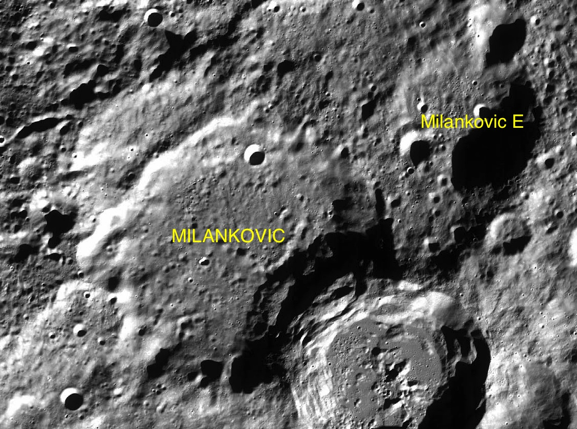 Part of the chart LAC-7 used for the presentation